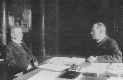 P.E. Svinhufvud and J.K. Paasikivi in summer 1918.